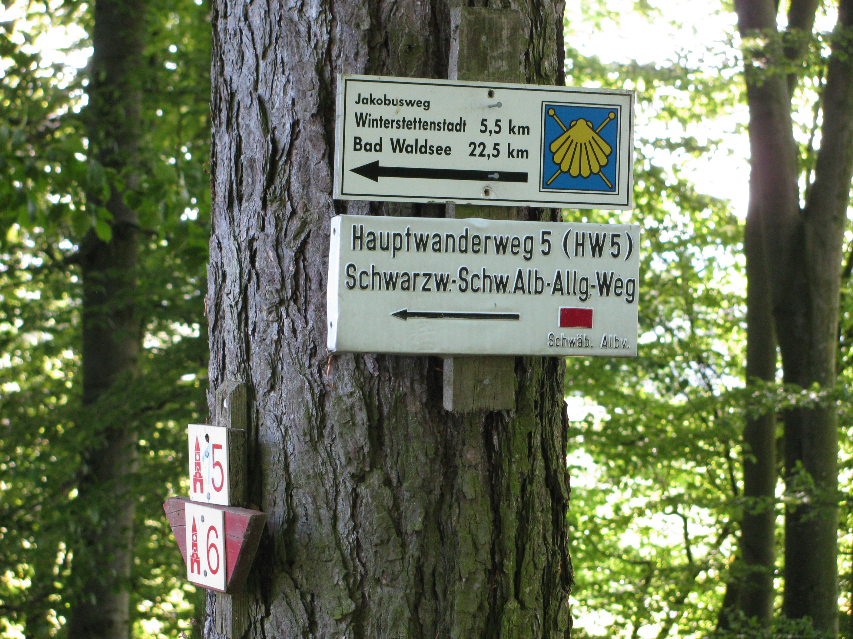 Germany - Baden-Württemberg - Biberach (district) - Bad Schussenried: Oberschwäbischer Jakobsweg (Way of Saint James), trail blaizing between Steinhausen and Winterstettenstadt